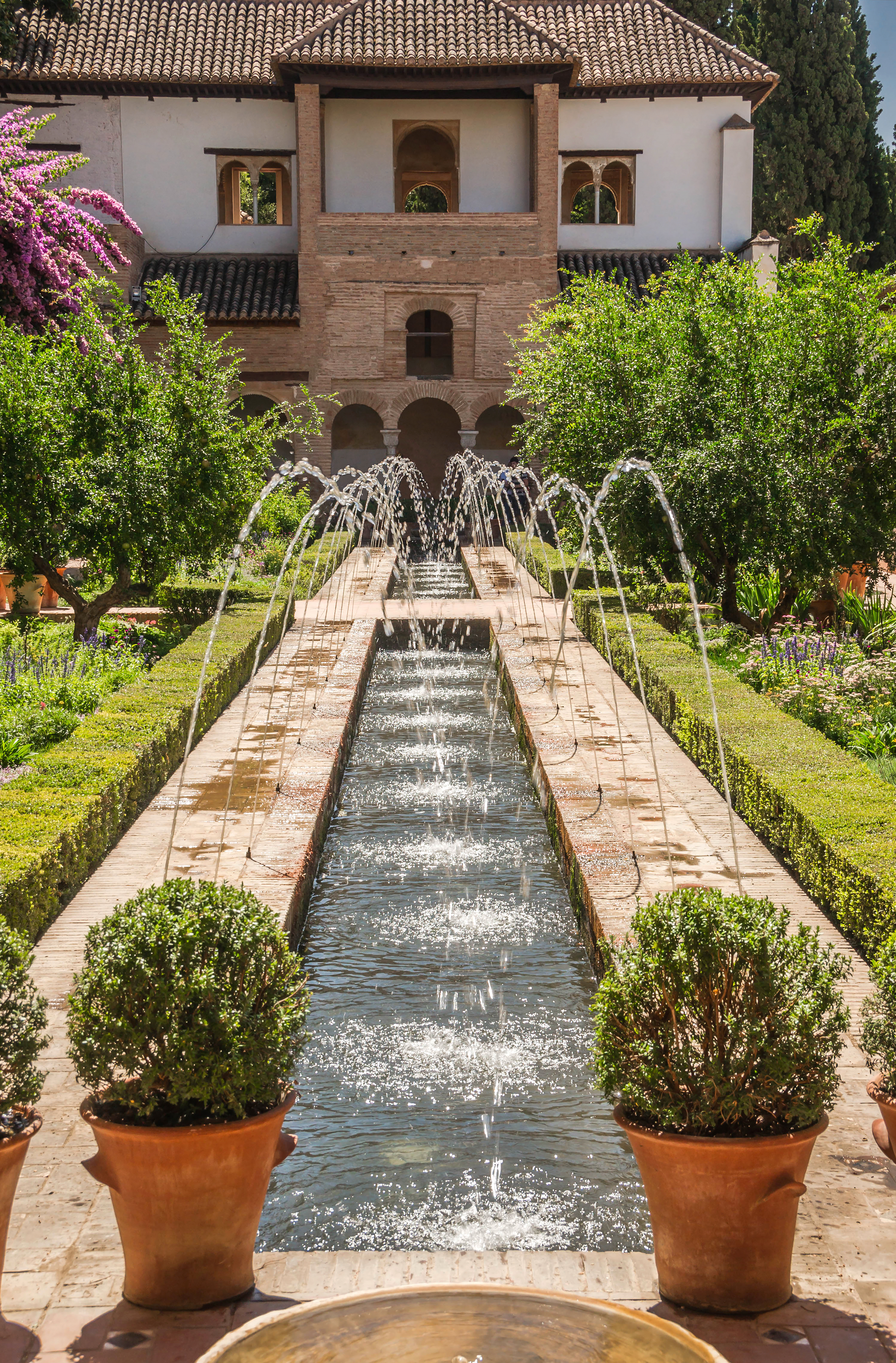 Patio de la Acequia, detail, Gardens of the Generalife, Granada, Spain.